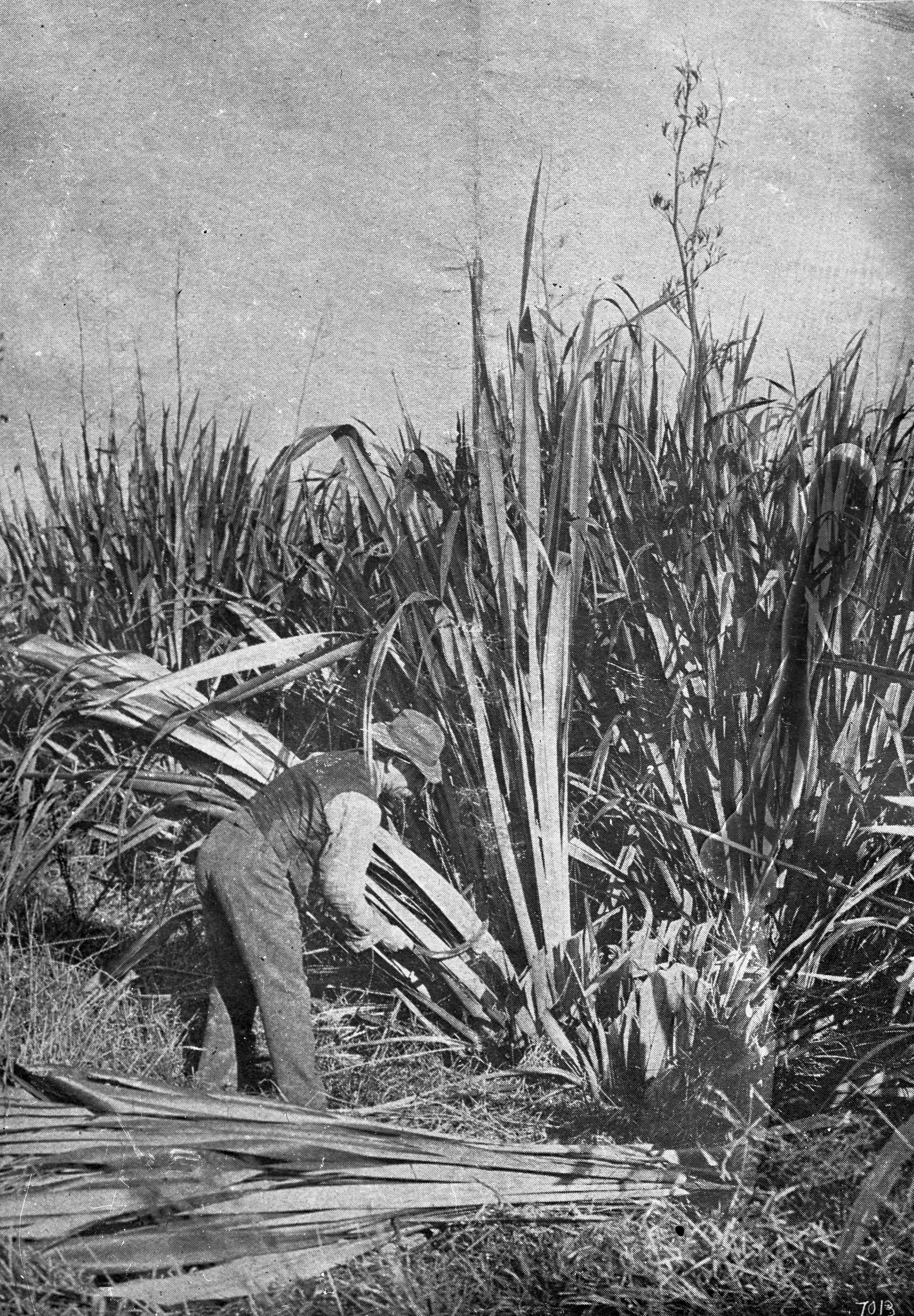 View of a man harvesting green flax leaves using a sickle. The negative is a copy of an image in an unidentified publication, photographed by an unidentified photographer. Copy photographed by Albert Percy Godber circa 1910. Inscription from the publication is visible on the negative, but is not shown on the File Print. Also visible is the number 7013 on the original image.